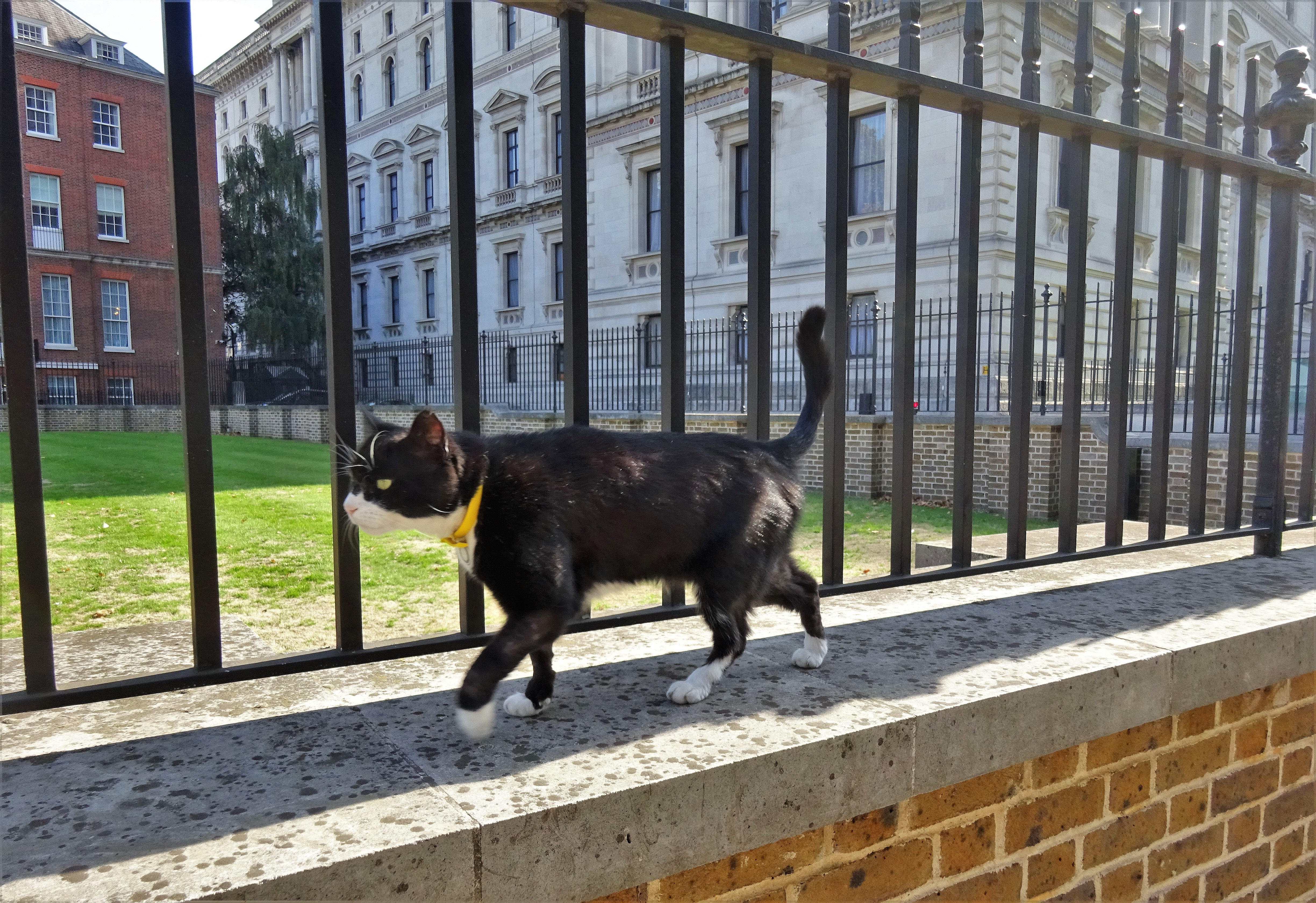 London October 5 2018 (38) Palmerston Chief Mouser of the Foreign & Commonwealth Office at Whitehall